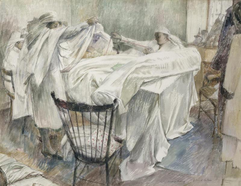 Nurse are gathered around a table laden with white sheets , which they are tearing into strips for bandages.